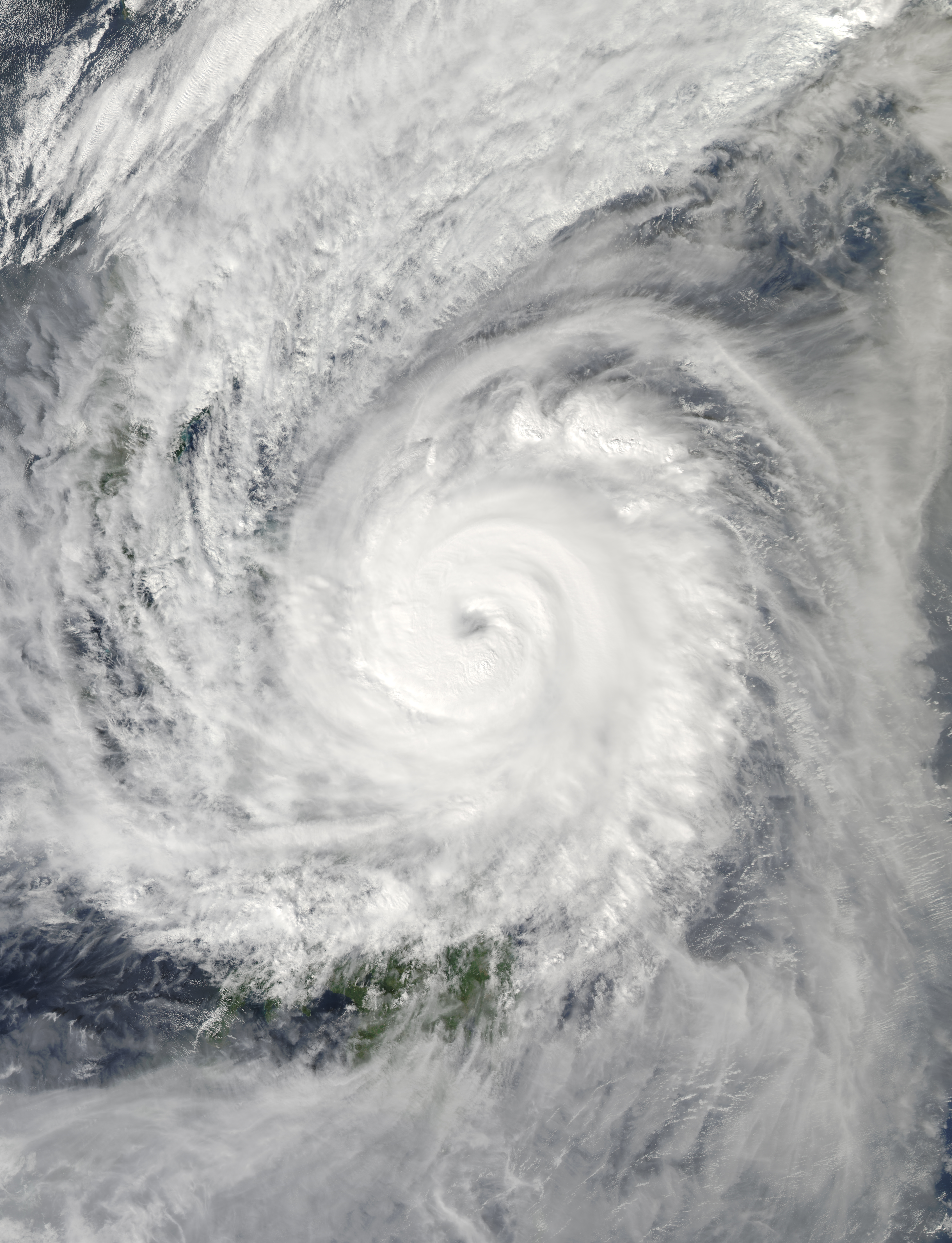 Typhoon Kammuri on December 02,2019